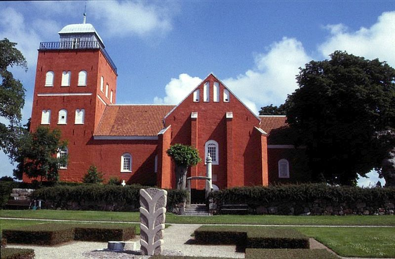 Dreslette Church in Assens Kommune from apr. 1100